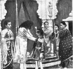 A scene from the Indian movie Raja Harishchandra (1913)